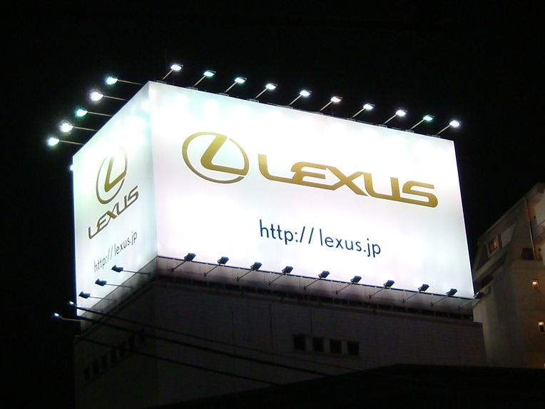 Lexus`s billboard at night in Tokyo